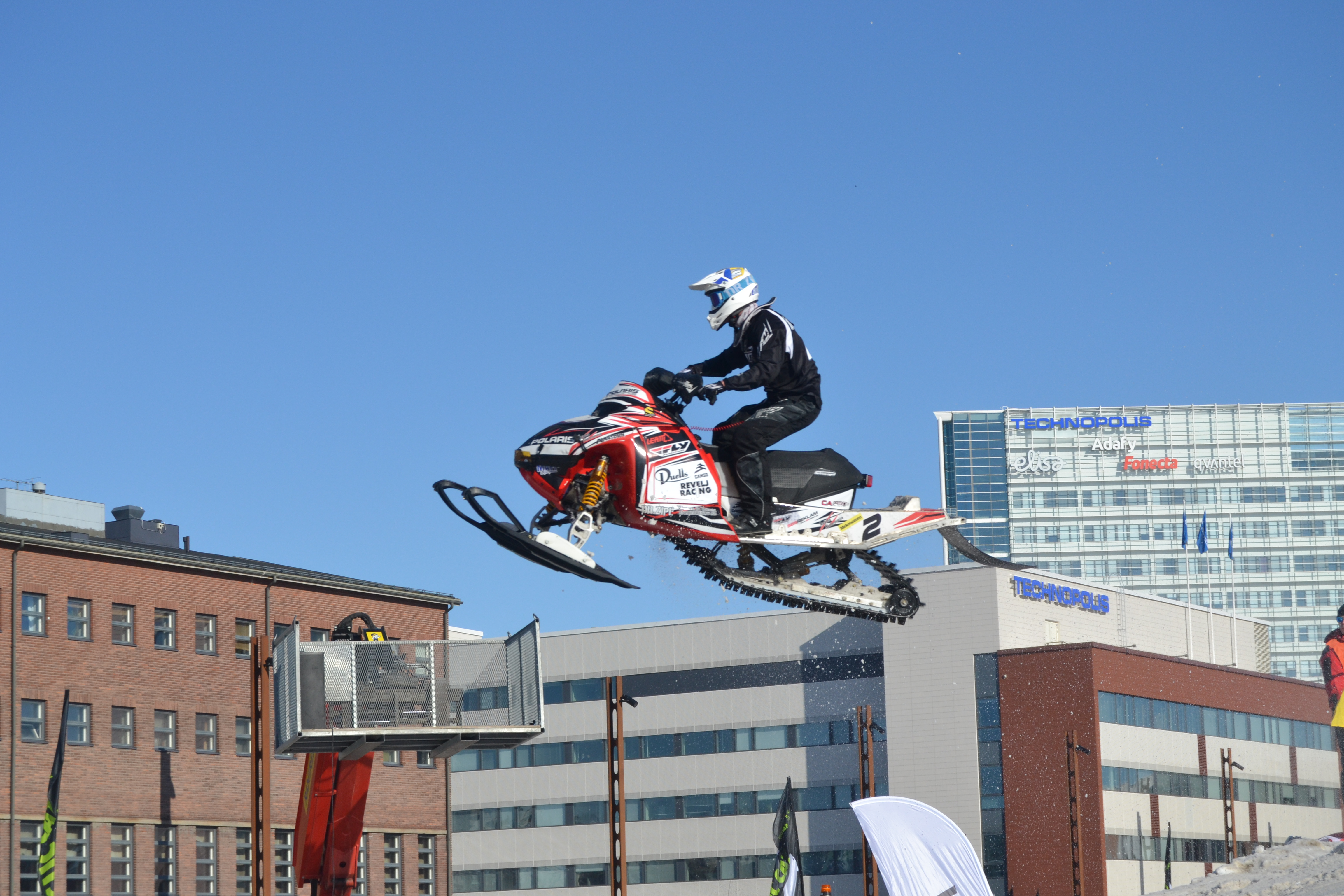 Nisse Kjellström at semifinal of 2016 Snowcross World Championship in Jyväskylä, Finland